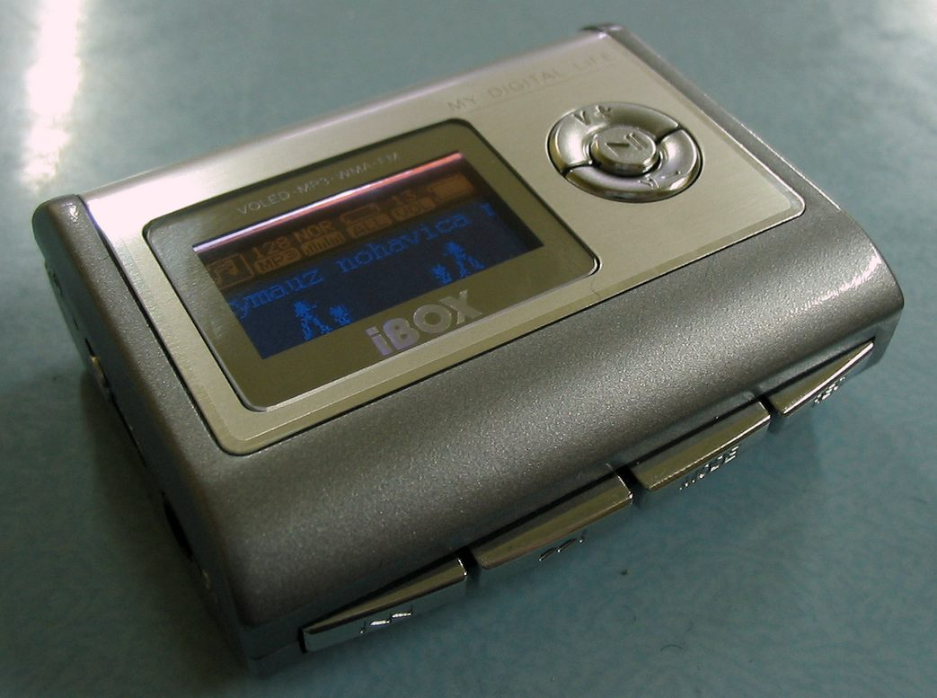 flash memory mp3 player (Ibox Mediaman) and, This Chinese Mp3p is carbon copy of iriver.